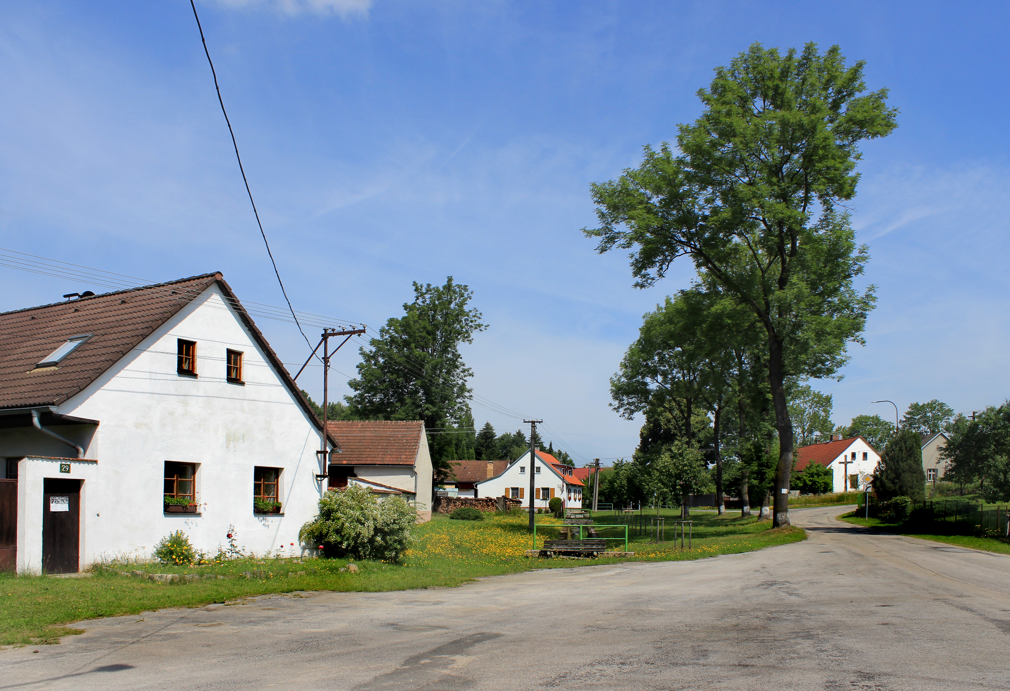 Common in Vydří, Czech Republic.